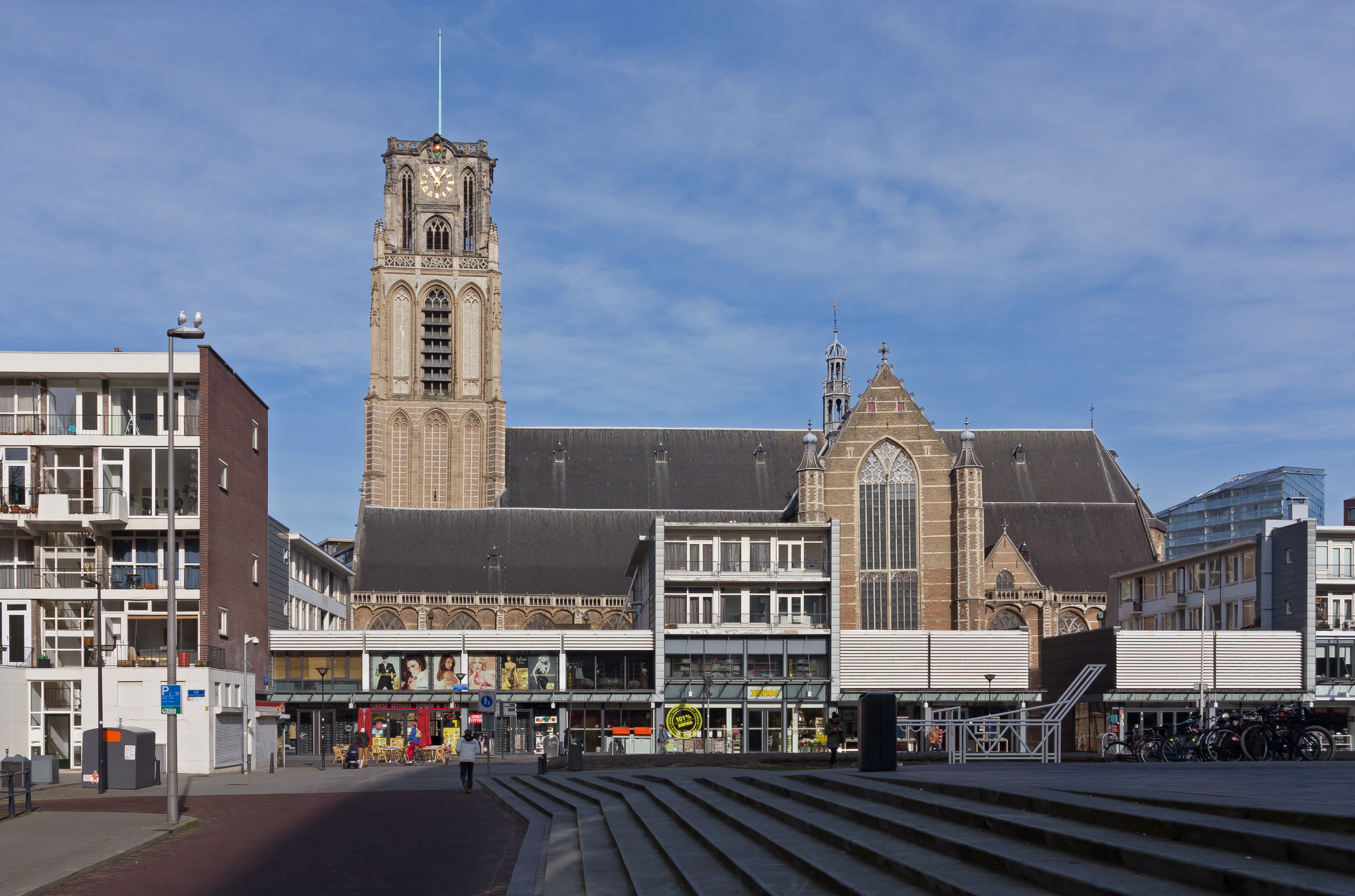 Rotterdam, church: de Sint Laurenskerk